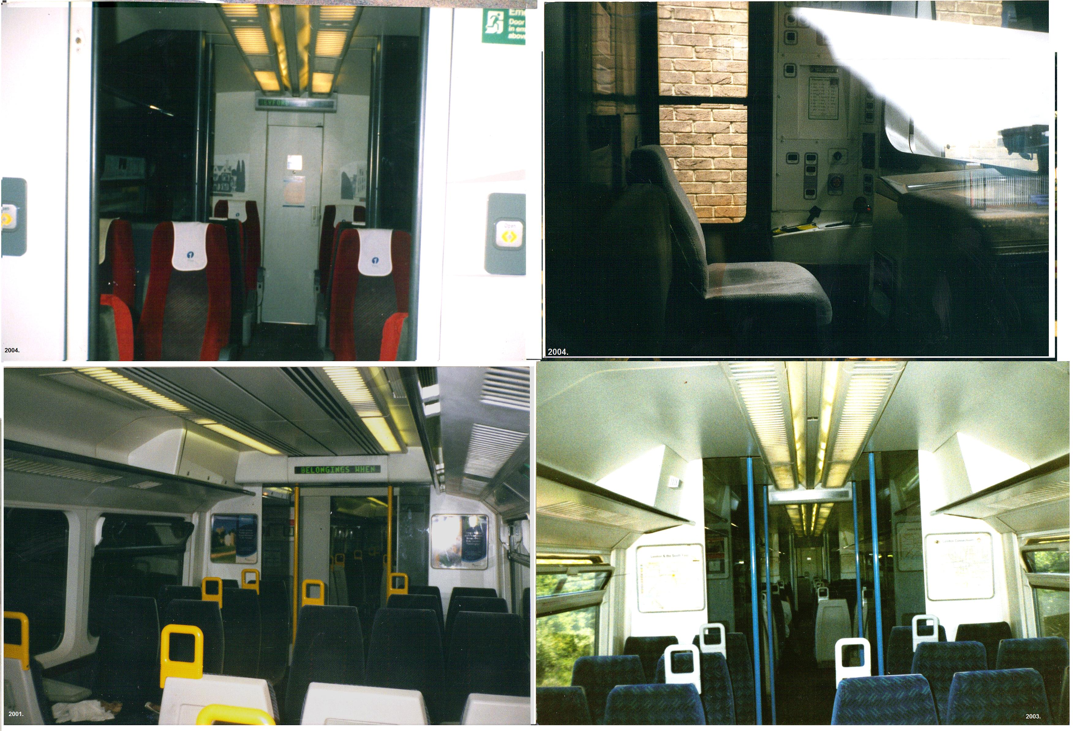 I took the picture of various Thames Turbo/Turbo Express interiors and a cab shot. The pictures are date stamped and are of the following parts- (clockwise, from top left) 1st Class, the train's cab, 2nd class Turbo Express seats and 2nd class Turbo seats. I hereby release it in to the public domain.